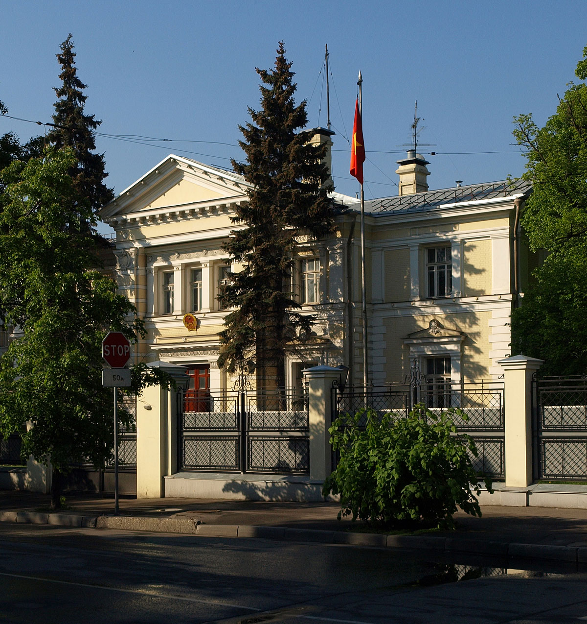 Embassy of Vietnam in Moscow (Bolshaya Pirogovskaya Street). Built in 1895 as the Morozov charity orphanage, the first independent work by Illarion Ivanov-Schitz.